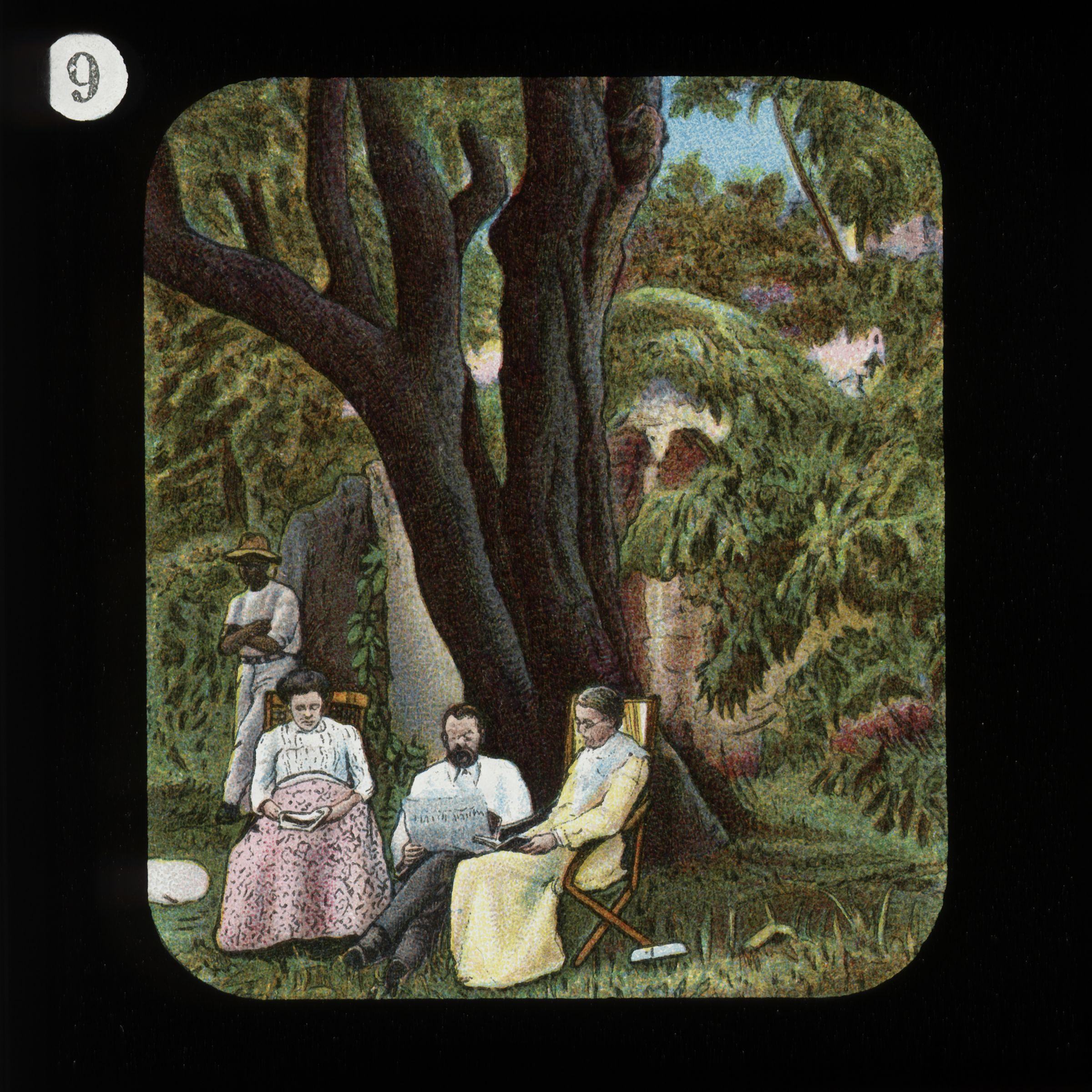 All images in this batch have been evaluated manually for evidence that the artist probably died before 1939, or that the work is anonymous or pseudonymous and was probably published before 1923. Pseudonymous, dated circa 1900. This image (or other media file) is in the public domain because its copyright has expired and its author is anonymous. This applies to the European Union and those countries with a copyright term of 70 years after the work was made available to the public and the author never disclosed their identity. Important: Always mention where the image comes from, as far as possible, and make sure the author never claimed authorship. Note: In Germany and possibly other countries, certain anonymous works published before July 1, 1995 are copyrighted until 70 years after the death of the author. See Übergangsrecht. Please use this template only if the author never claimed authorship or their authorship never became public in any other way. If the work is anonymous or pseudonymous (e.g., published only under a corporate or organization's name), use this template for images published more than 70 years ago. For a work made available to the public in the United Kingdom, please use Template:PD-UK-unknown instead.